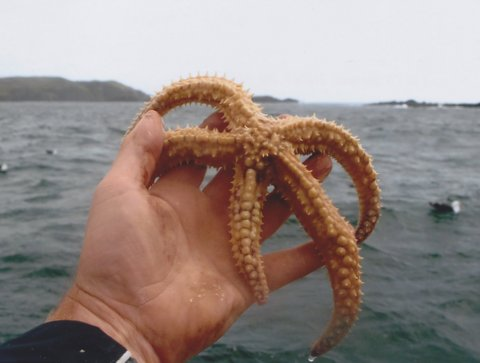 Starfish to the rod caught in Ireland